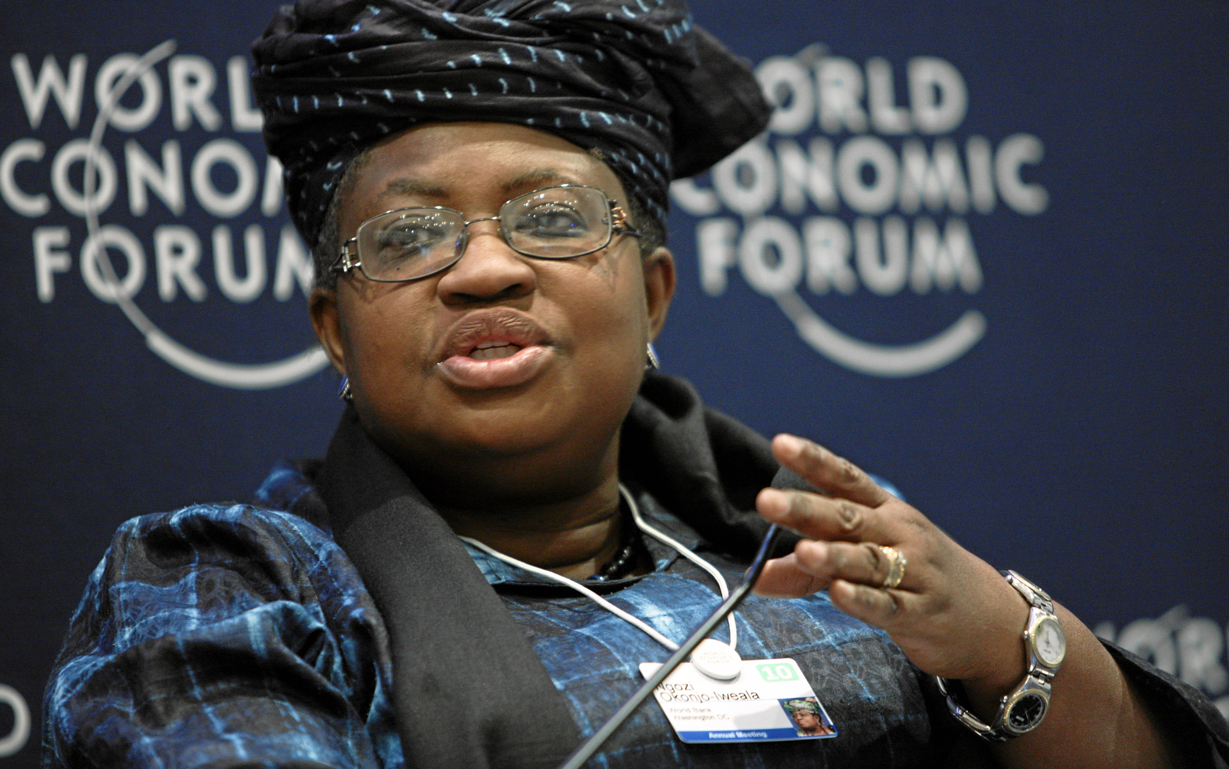 Ngozi Okonjo-Iweala, Managing Director, World Bank, Washington DC; Global Agenda Council on Corruption, is captured during the session 'Zero Option for Corruption' in the Congress Centre of the Annual Meeting 2010 of the World Economic Forum in Davos, Switzerland.